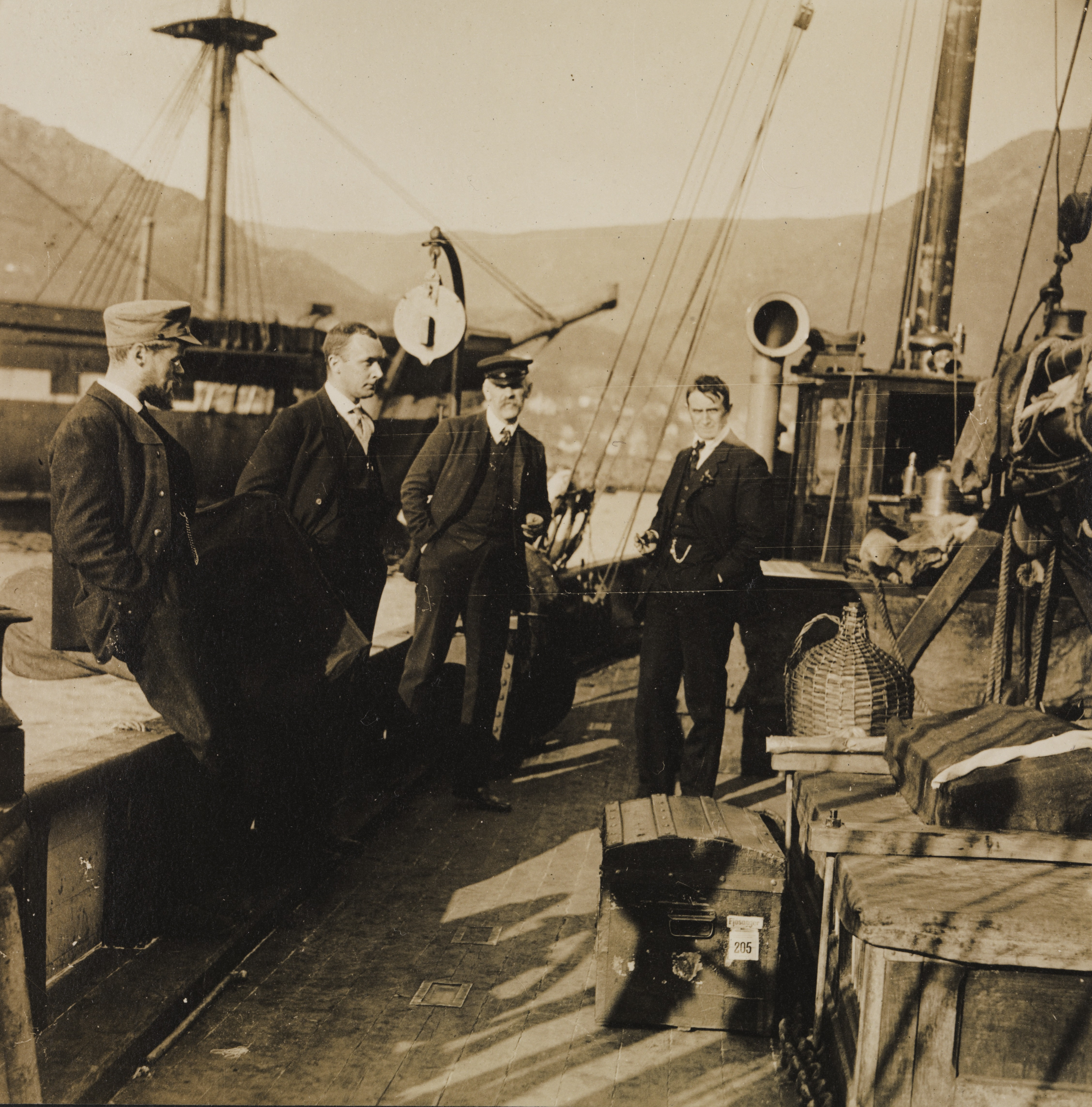 On board the marine research boat «Armauer Hansen». From the left: Illit Grøndahl, Kåre Nansen, Fridtjof Nansen and Bjørn Helland Hansen. They are together on an oceanographic cruise to the Azores, where scientific investigation of this part of the Atlantic was carried out.